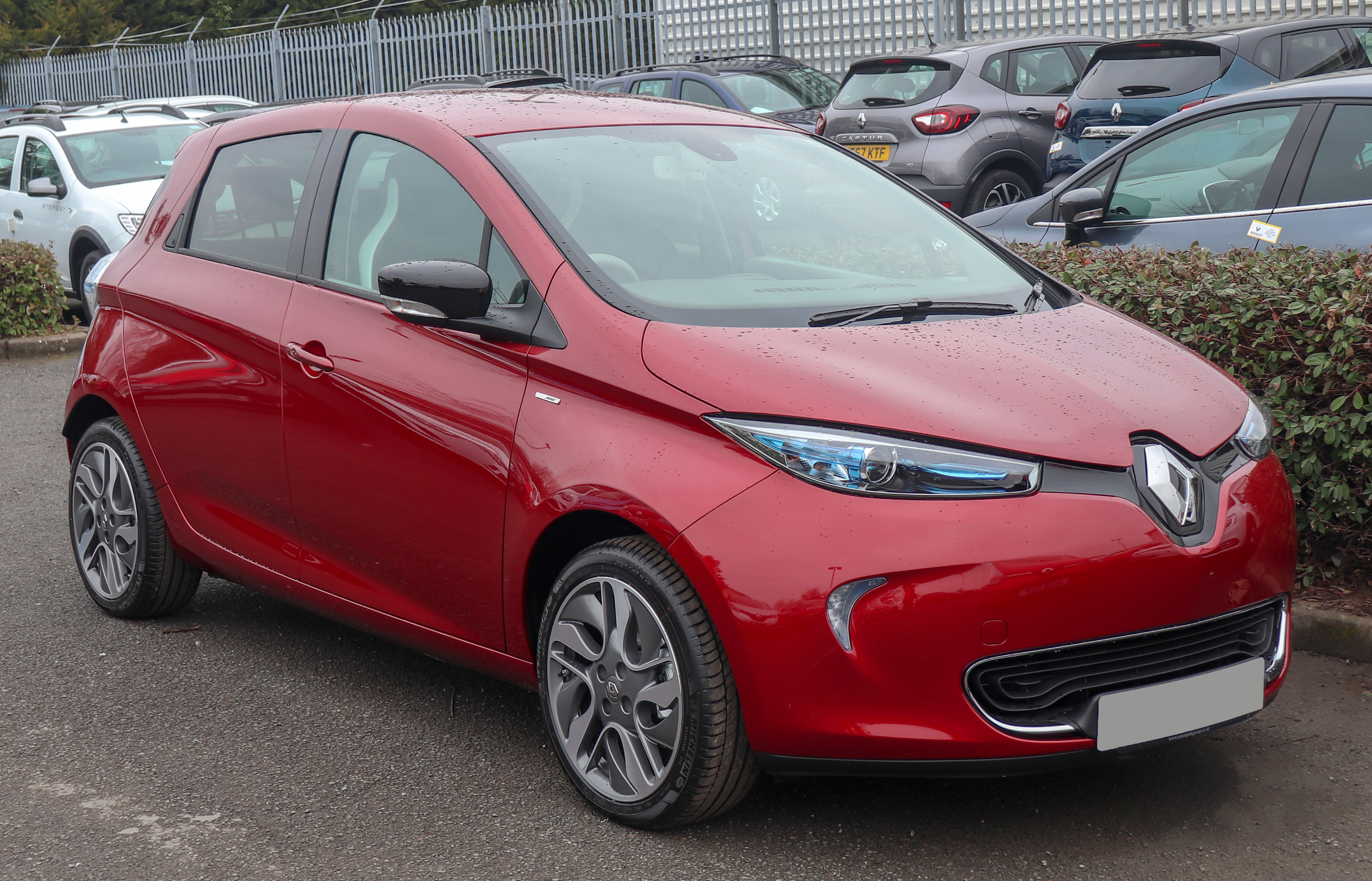 2019 Renault ZOE Dynamique Front Taken in Leamington Spa